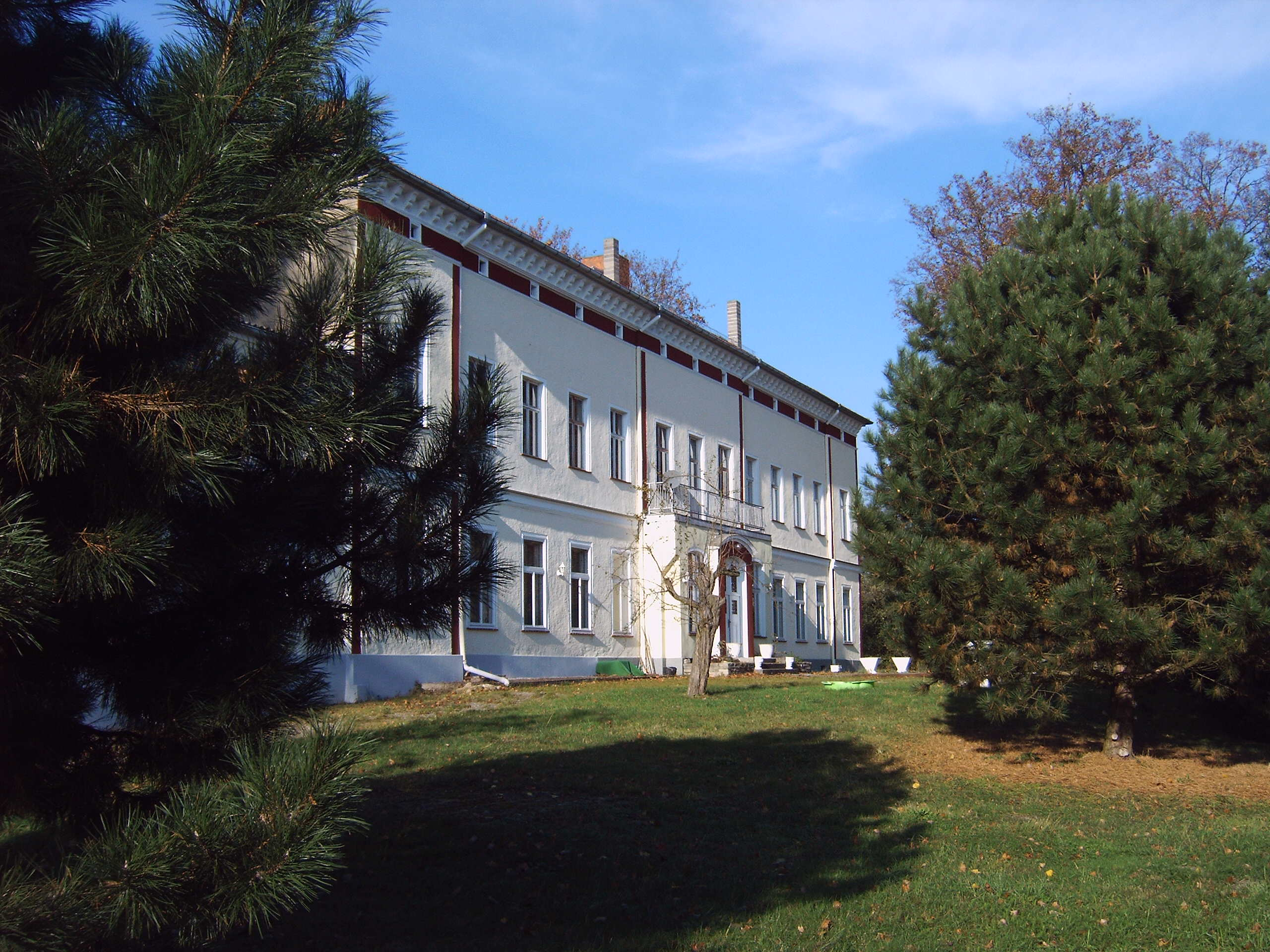 Manor house Parchen, Saxony-Anhalt